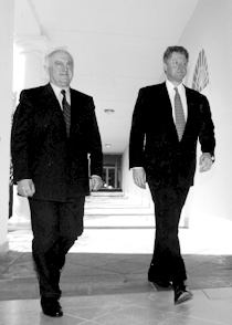 Eduard Shevardnadze on official visit to the United States with President William J. Clinton